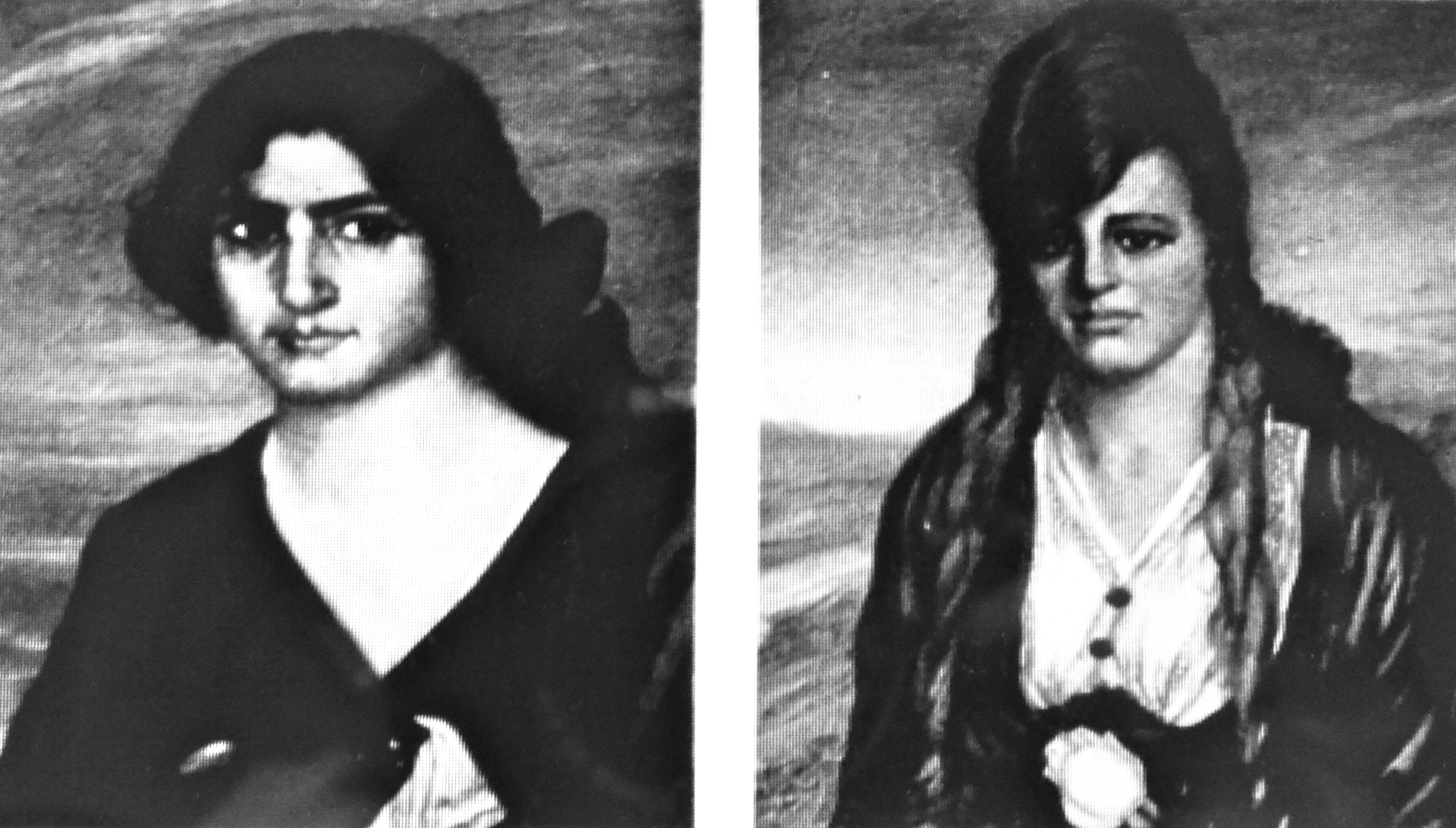 Paint